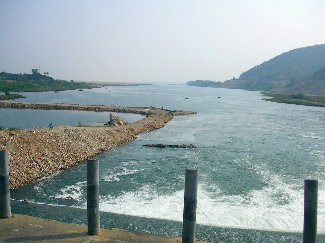 The Penner (also Pennar, Penna or Penneru) is a river of southern India. The Penner rises on the hill of Nandi Hills in Chikballapur District of Karnataka state, and runs north and east through the state of Andhra Pradesh to empty into the Bay of Bengal. It is 597 kilometres (371 mi) long, with a drainage basin 55,213 square kilometres (21,318 sq mi) large.